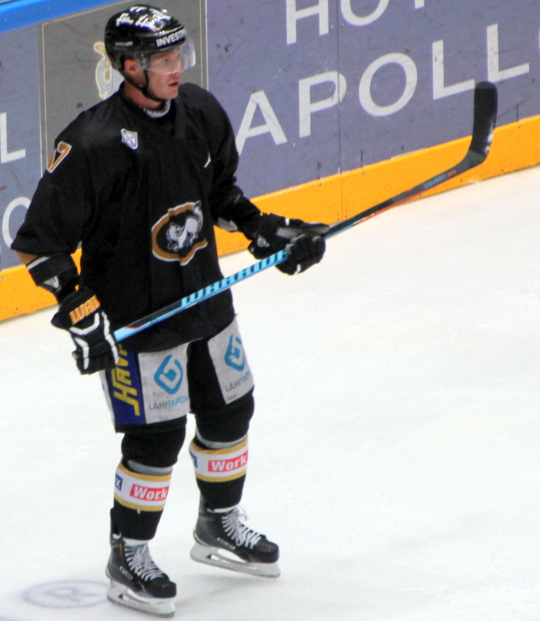 Mika Pyörälä in 2014